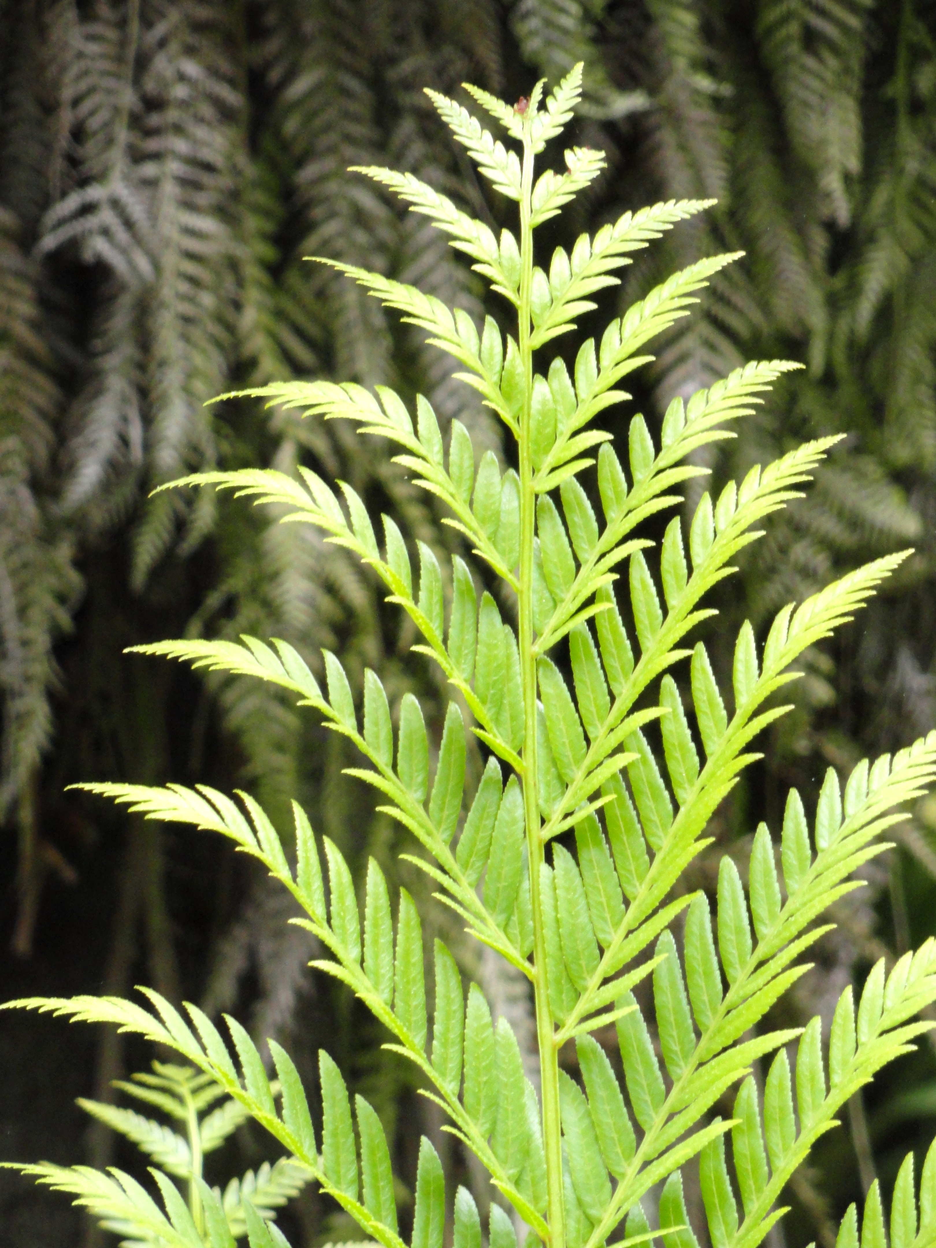 Todea barbara specimen in the University of California Botanical Garden, Berkeley, California, USA.